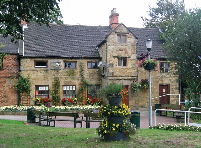 Alfreton House, Derbyshire. Alfreton House, dating from the 1650s, is thought to be one of Alfreton's oldest properties. It is located at the end of the High Street on the corner of Rogers Lane. It is owned by Amber Valley Borough Council, housing several offices and a tea room.